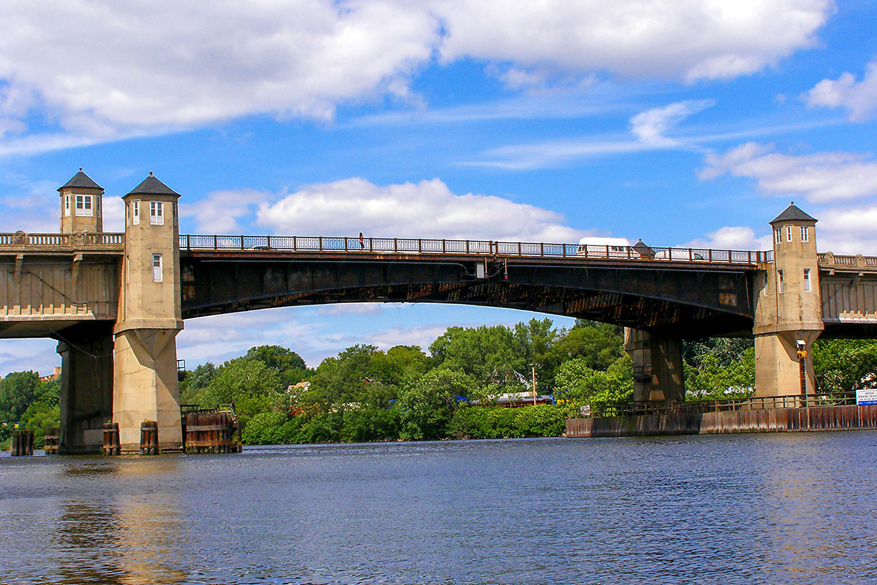 Winant Avenue Bridge over the Hackensack River, Little Ferry - Ridgefield Park, New Jersey